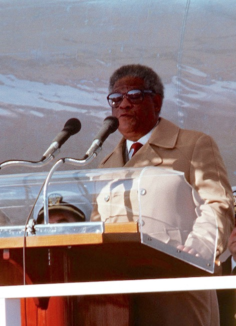 (SSN 720). Seated on the left is Vice Admiral Bernard M. Kauderer, Commander of Submarine Force, U.S. Atlantic Fleet, and seated on the right is Sponsor Carol H. Sawyer Additional metadata is here